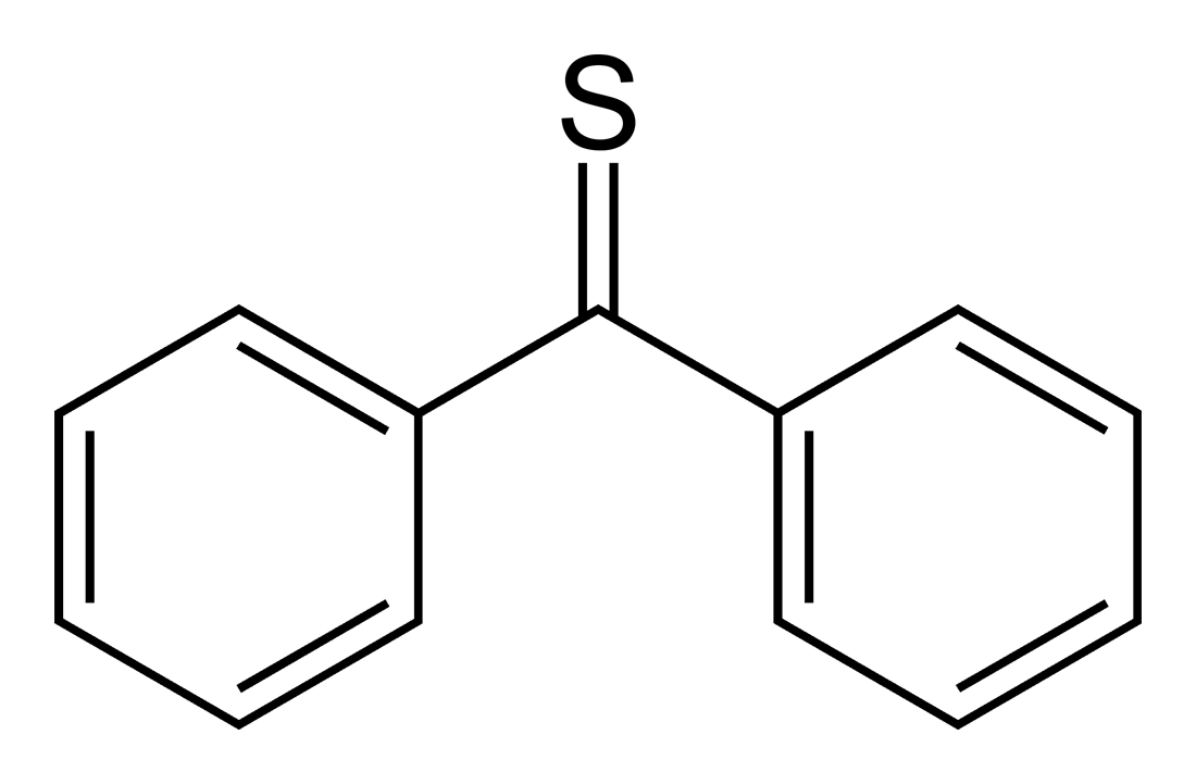 Skeletal formula of thiobenzophenone